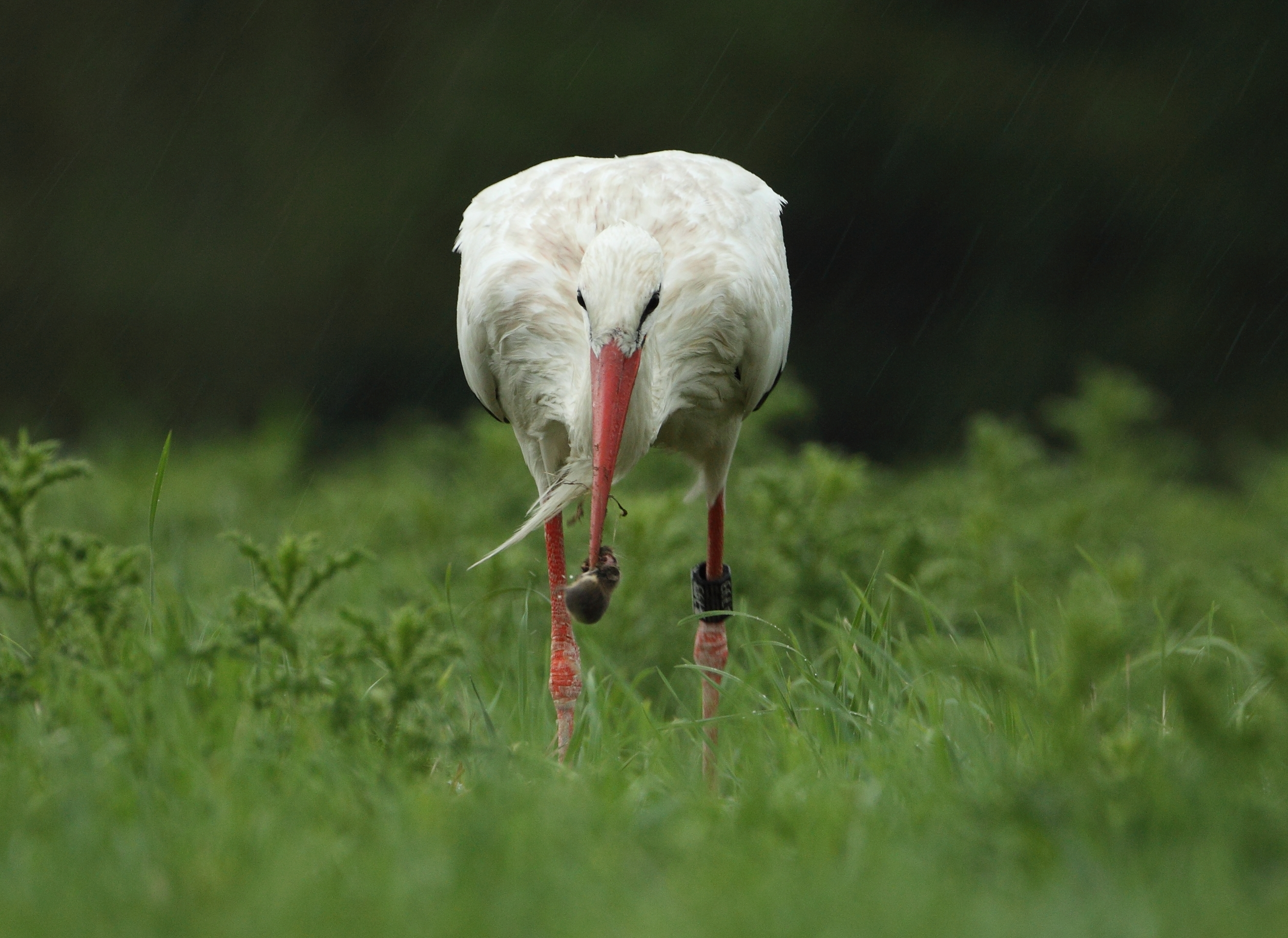 White Stork български: Бял щъркел brezhoneg: C'hwibon wenn català: Cigonya blanca čeština: Čáp bílý kaszëbsczi: Biôłi bòcón dansk: Hvid stork